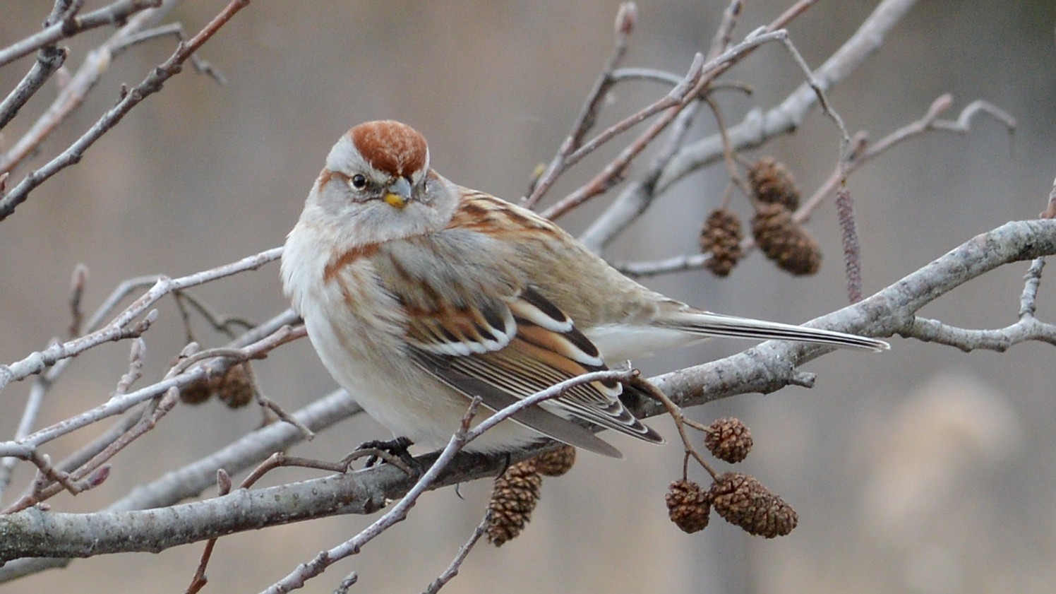 American Tree Sparrow (Spizelloides arborea) in Cambridge, Ontario, Canada.